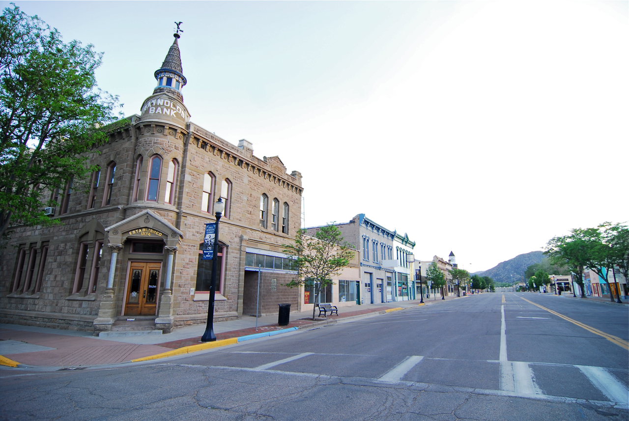 Historic downtown Canon City during the summer of 2010